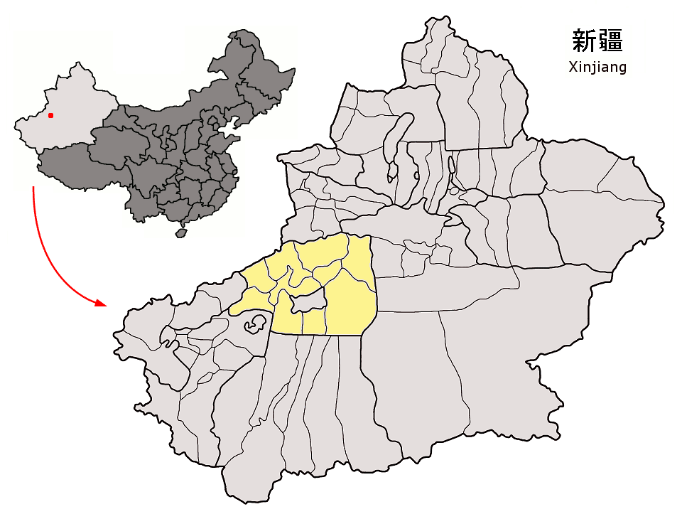 Location of Aksu Prefecture (yellow) within Xinjiang autonomous region of China Map drawn in september 2007 using various sources, mainly : Xinjiang Uygur autonomous region administrative regions GIS data: 1:1M, County level, 1990 Xinjiang Counties map from